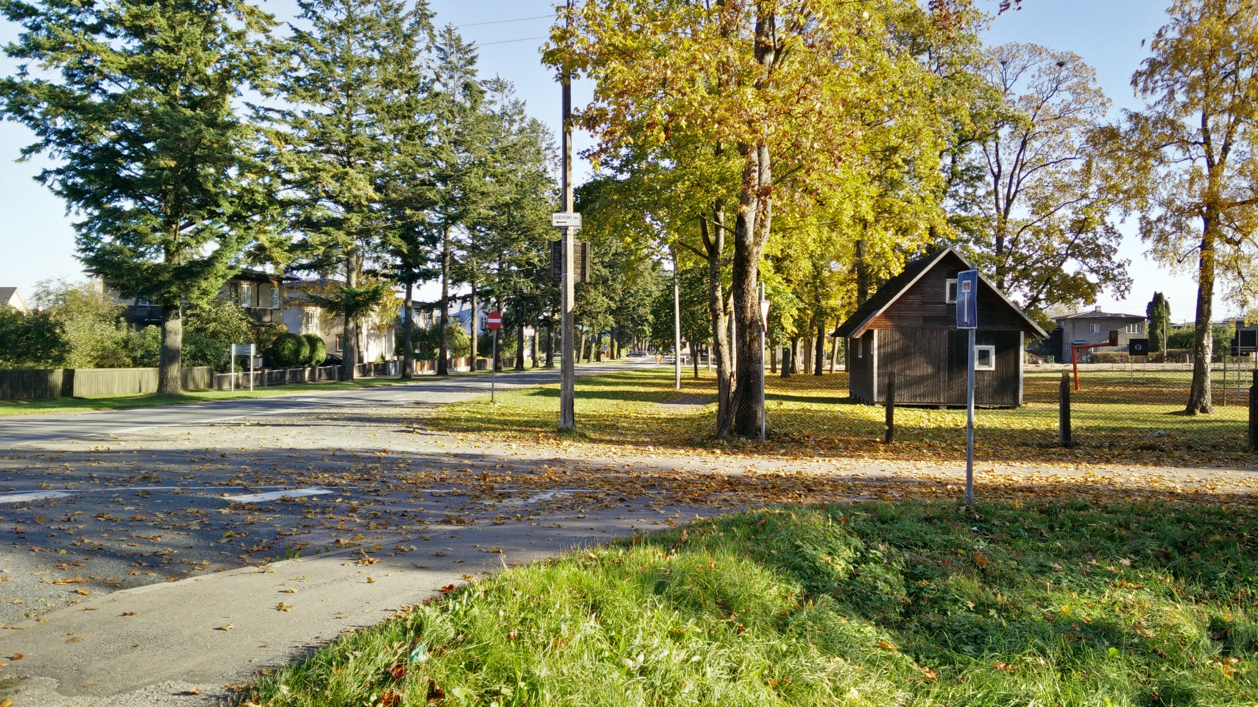 At the crossing with Uueveski road